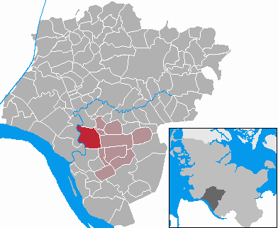 This map shows the area of the municipality Bahrenfleth in the Kreis (district) Steinburg, Schleswig-Holstein, Germany.